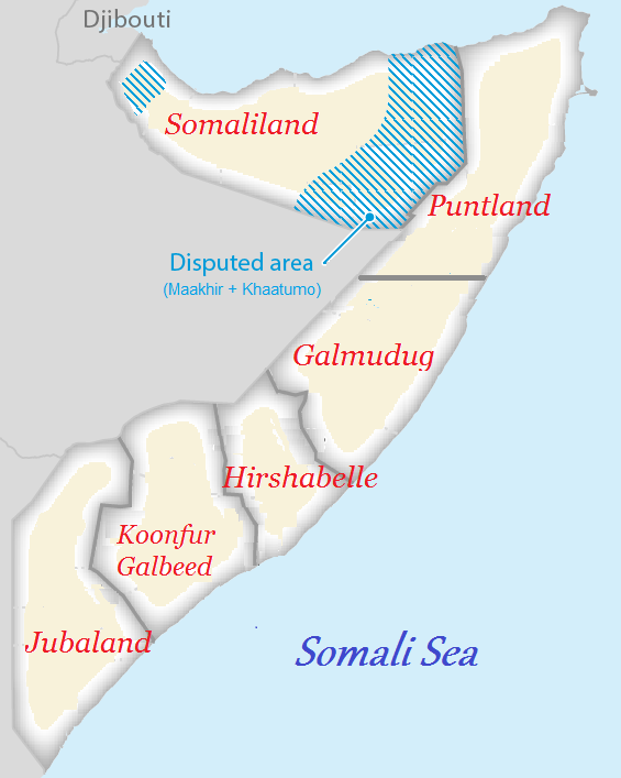 Federale kunstwerk somalie